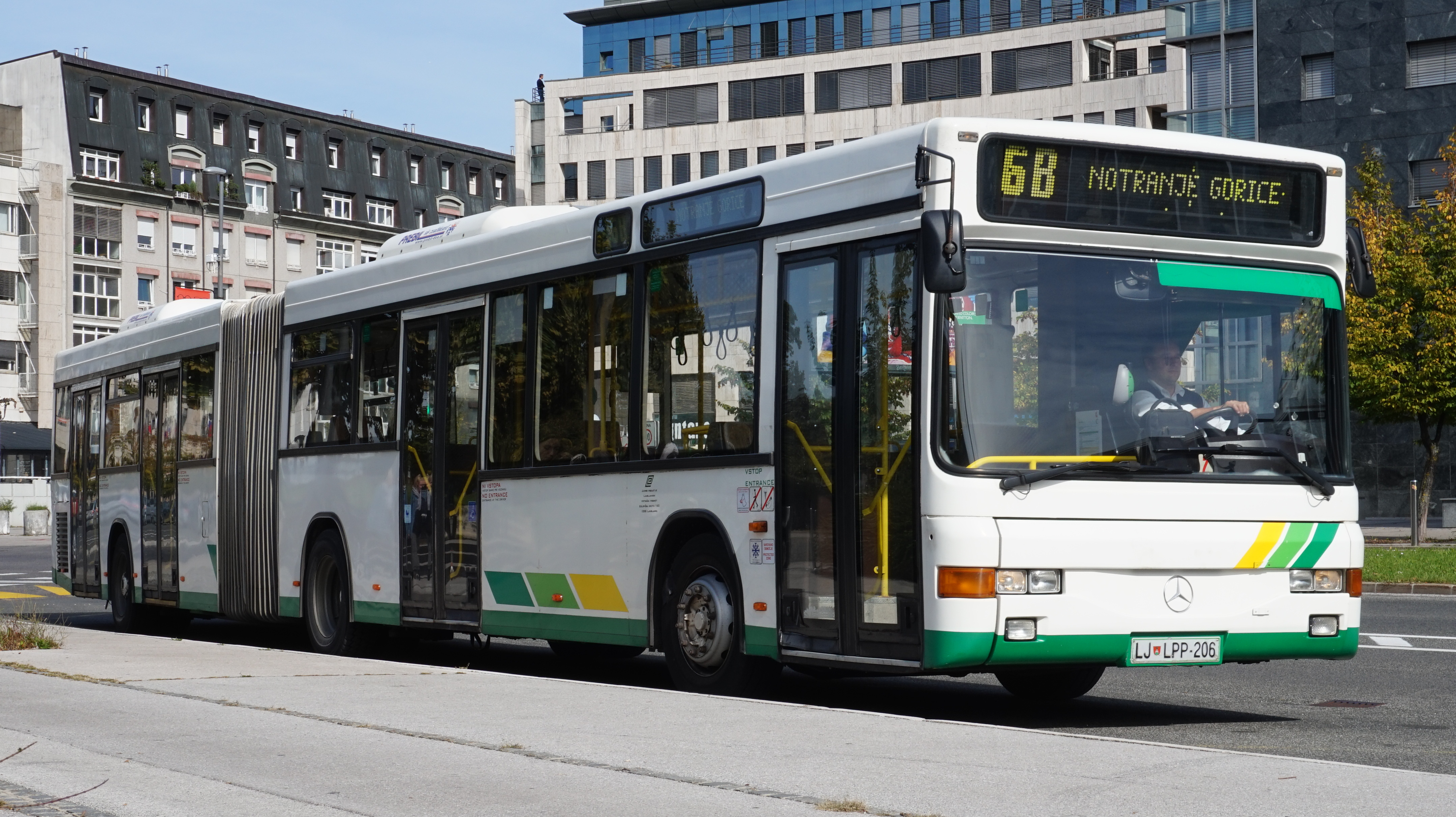 An articulated Mercedes-Benz O405GN city bus with upgraded front mask, owned by LPP (no. 206); on line 6B Notranje Gorice–Bežigrad; on the final station at Železna cesta